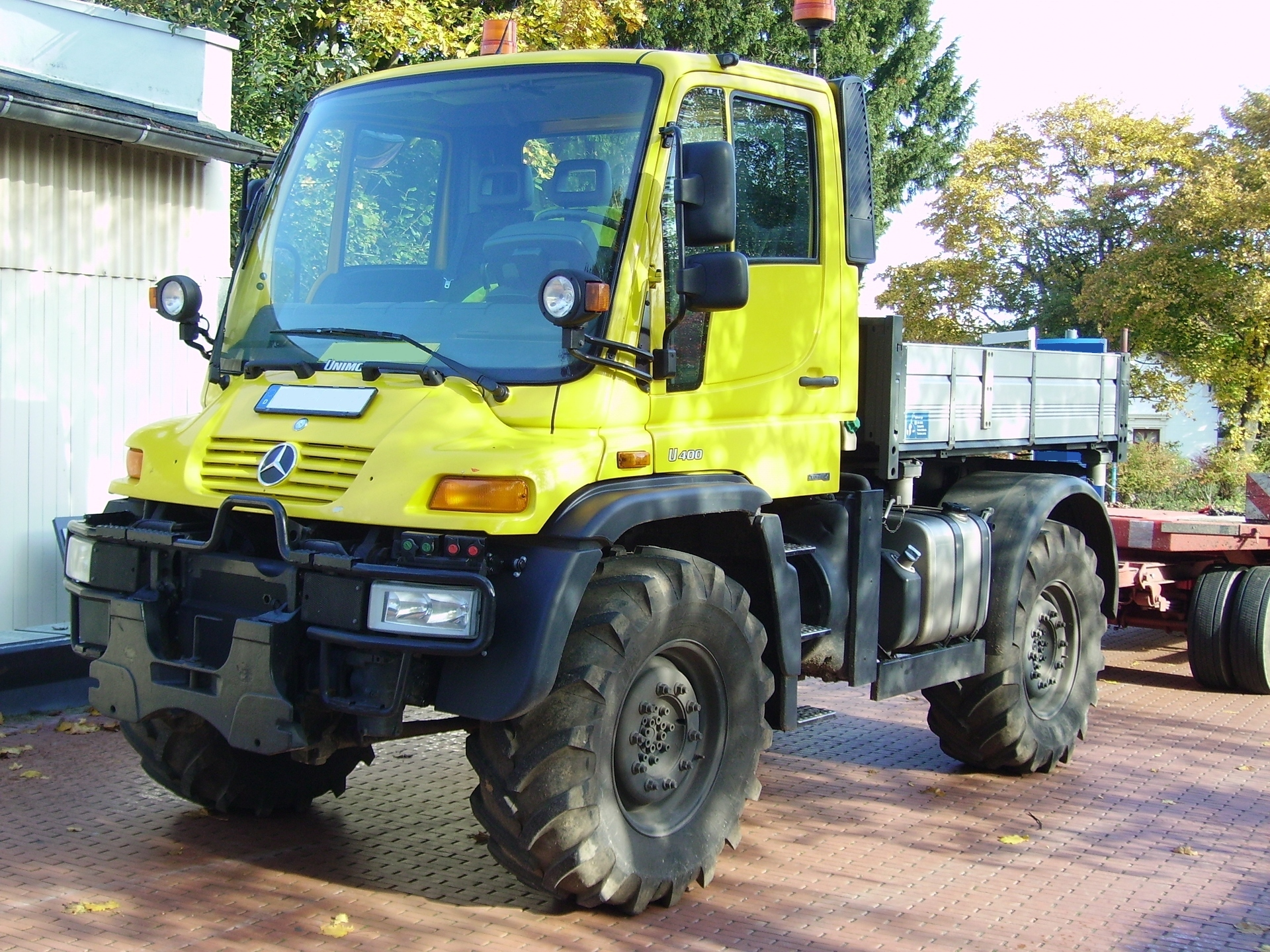 A Unimog U 400.